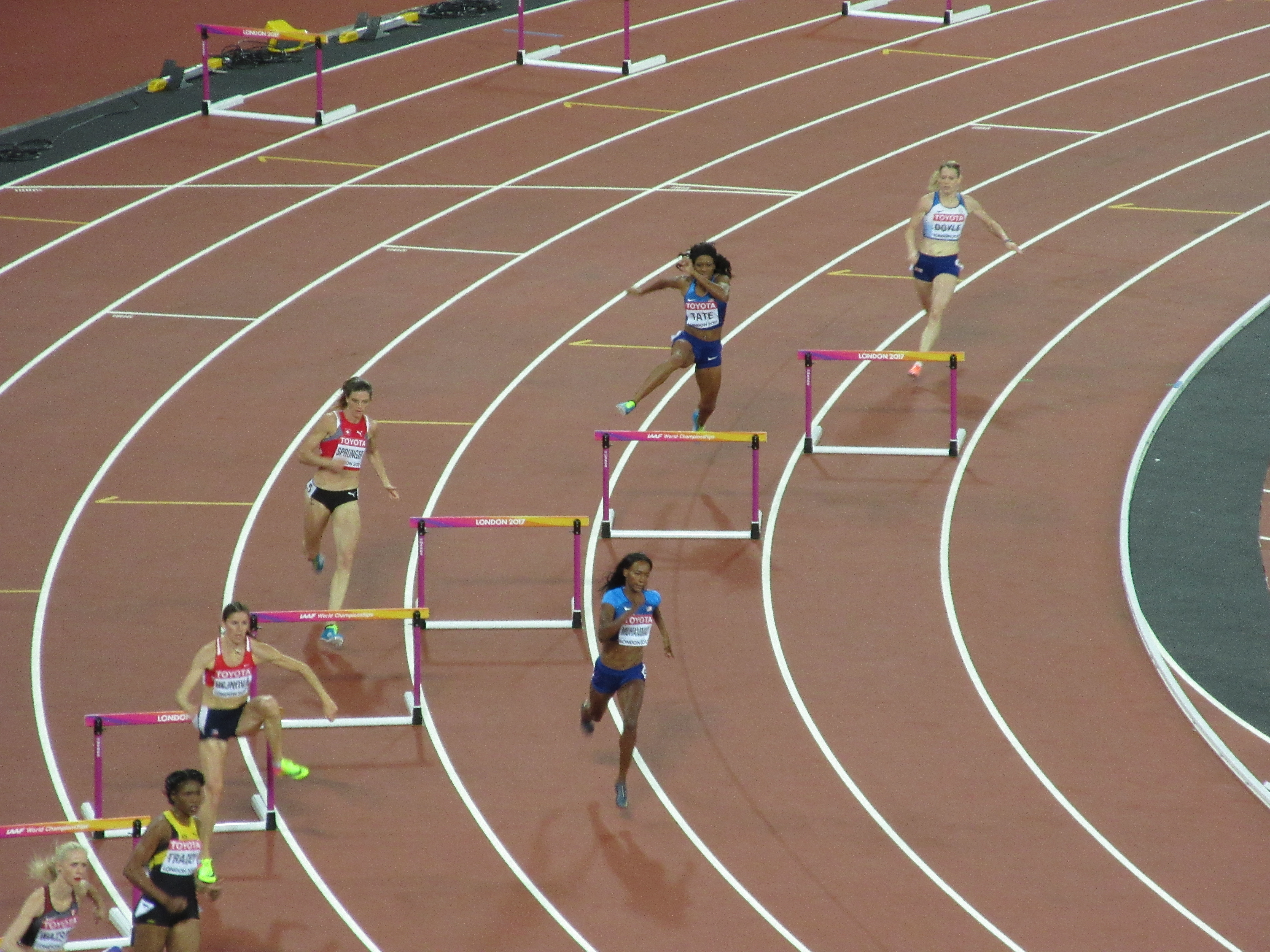 Eilidh Doyle on the right in lane 2